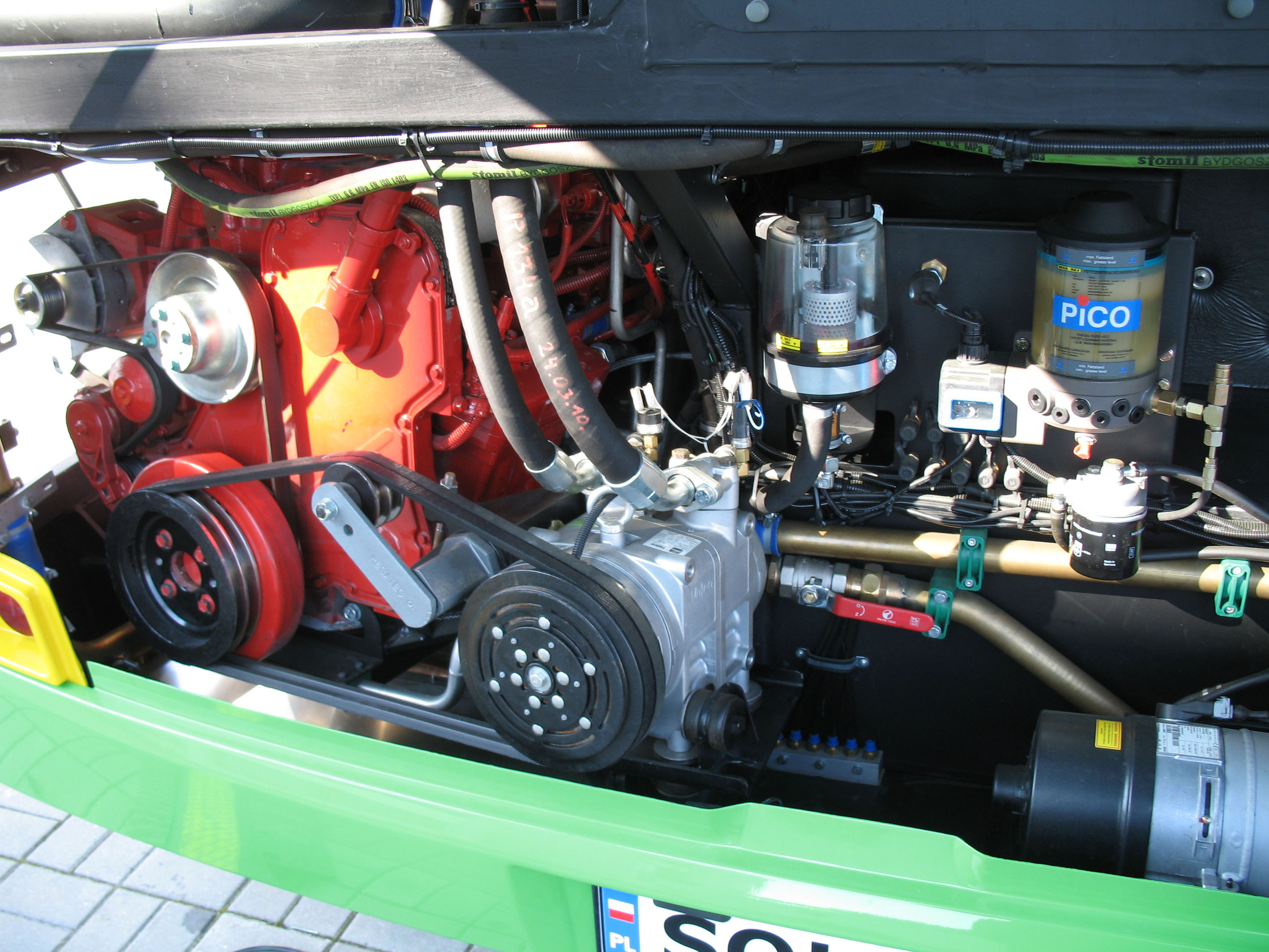 Solbus Solcity 12 LNG city bus engine (#277) in Kielce, Poland. Built 2010, MPK Wałbrzych operator. Cummins ISLGeEV 320 LNG engine.